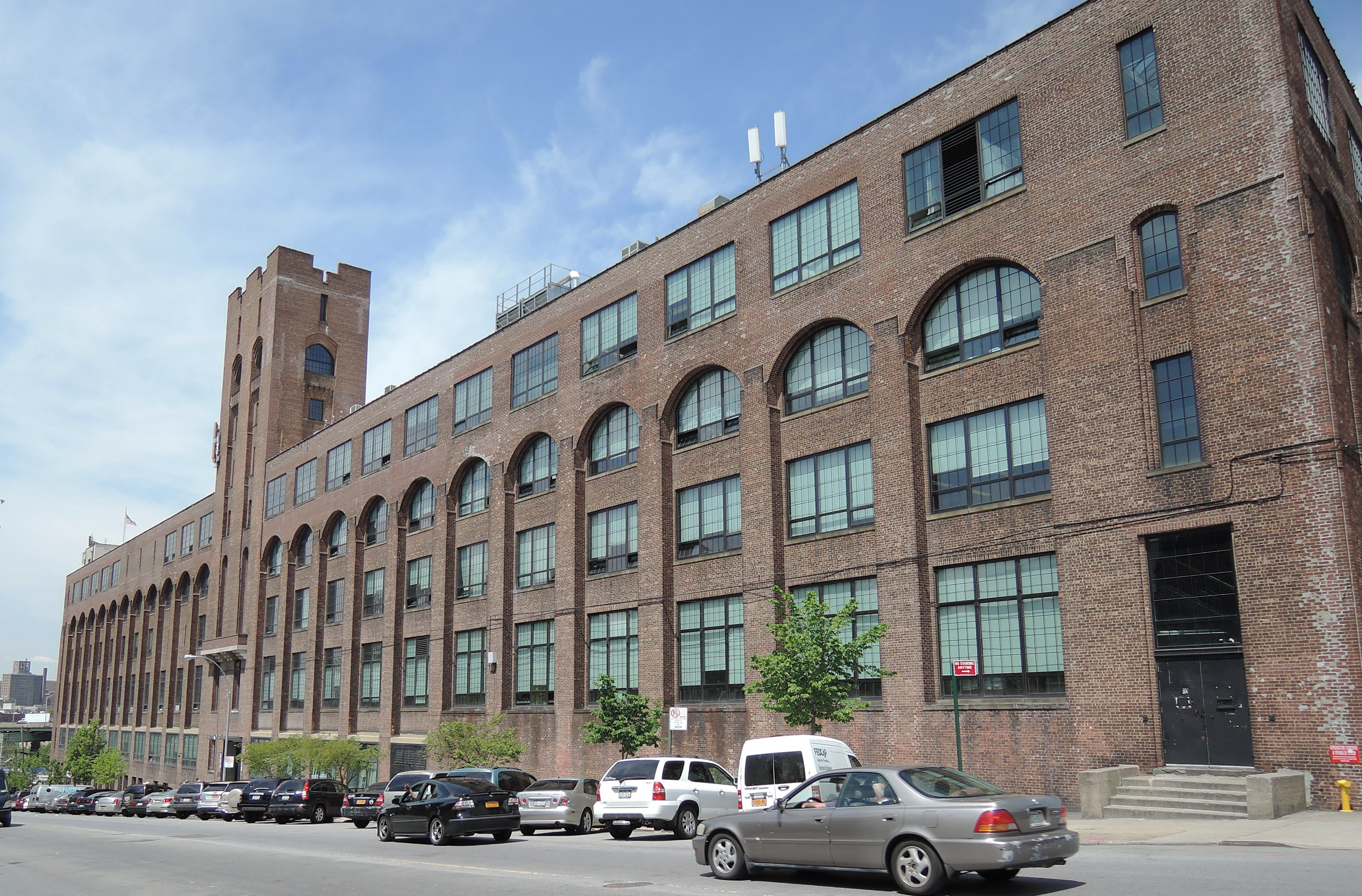 Looking northwest at former print plant in the Bronx, New York City, on a sunny midday.